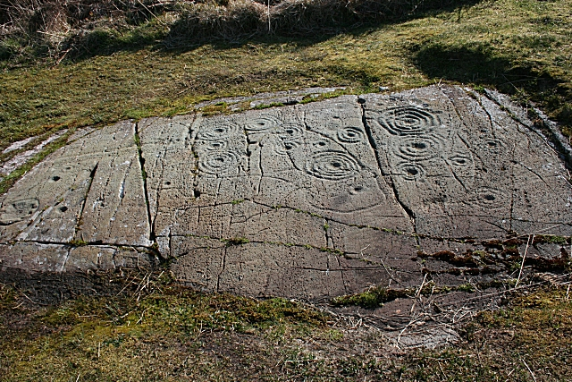 Cup-and-Ring-Marked Rock This is the most elaborately carved of the three incised surfaces in the immediate vicinity. The carvings are thought to have been made with a stone hammer some 5000 years ago, but their meaning is unknown.